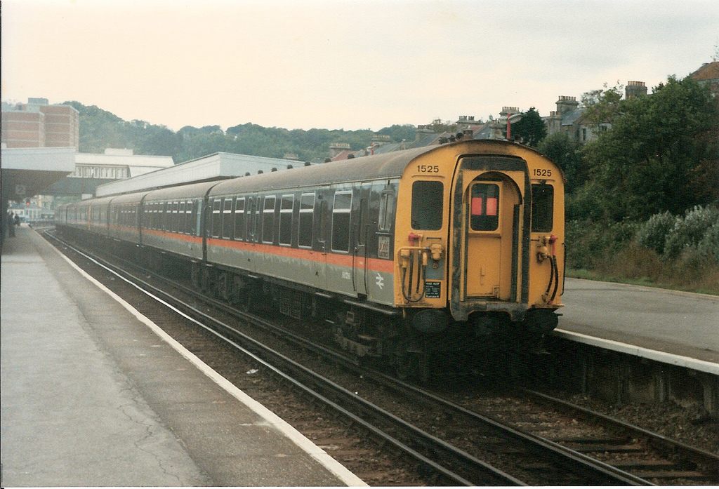 BR Class 411/4 4-CEP EMU no. 1525 in"jaffa cake" livery, Hastings, 24 September 1986